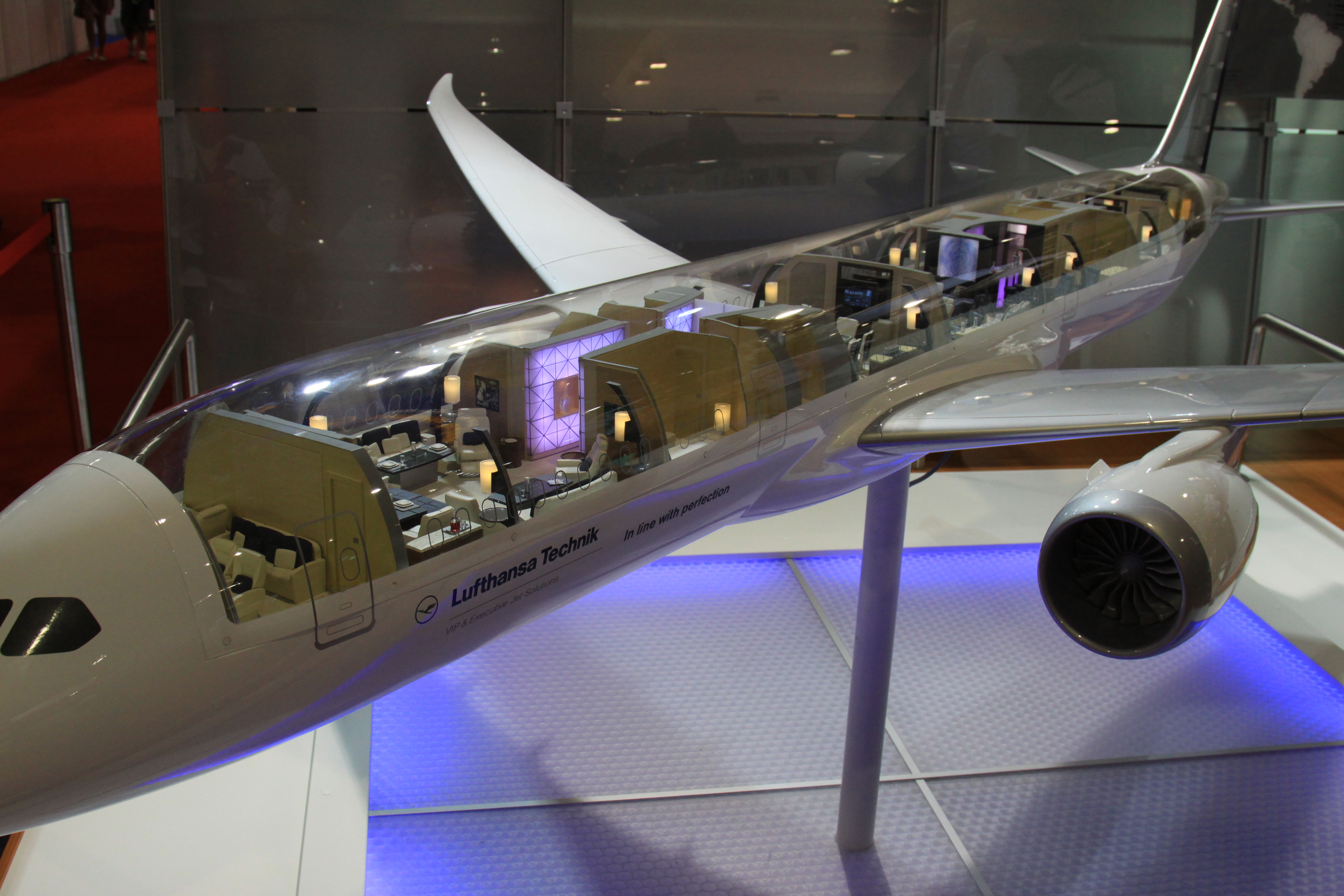 On prominent display at Singapore Airshow 2010, Lufthansa Technik VIP & Executive Jet Solutions display a Boeing 787 model with a transparent fuselage section to view the interior floor plan arrangement proposal and associated interior design.